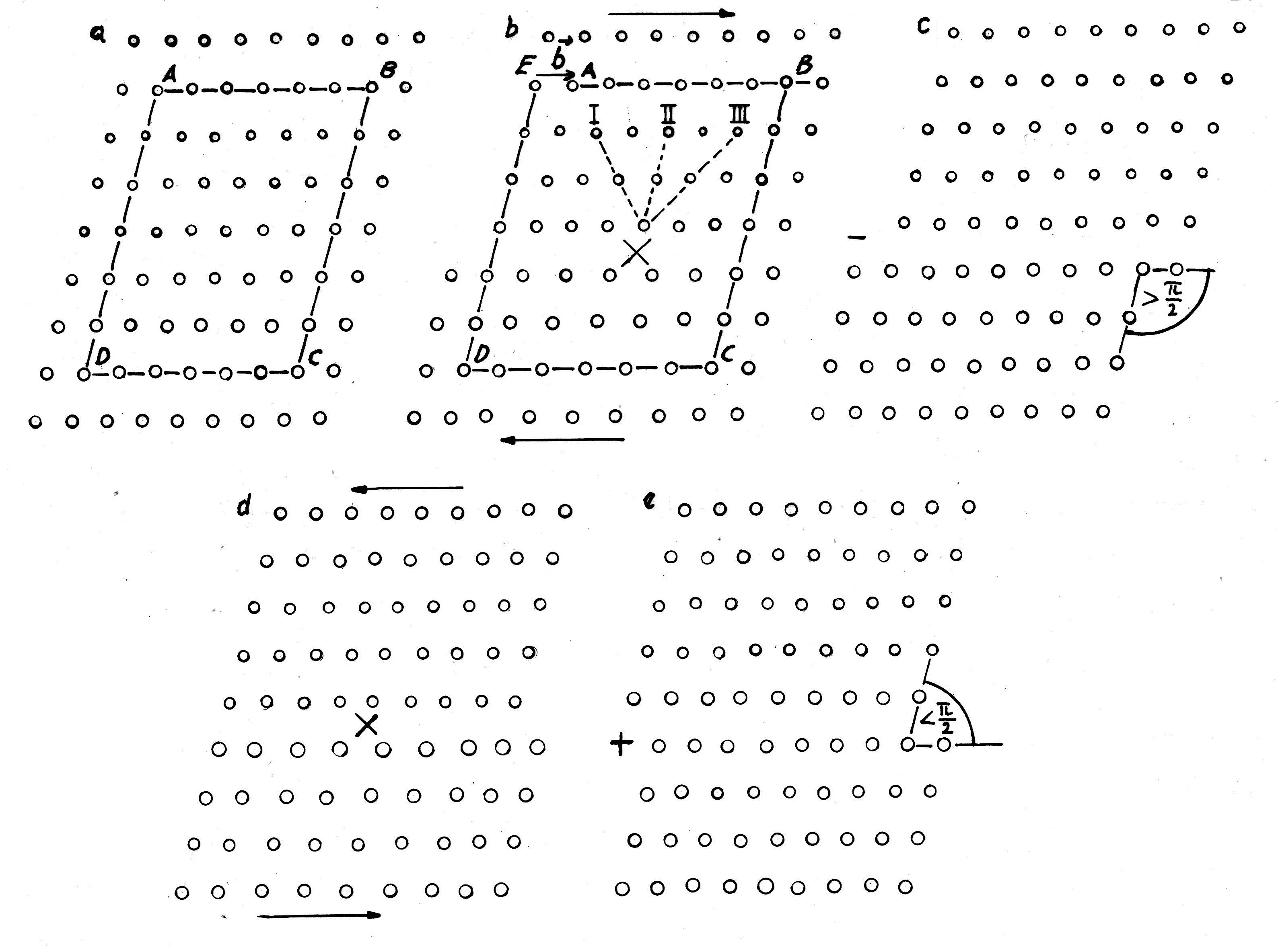 The picture shows an edge dislocation in a twodimensional lattice. The Burgers vector b shuts the circulation transfered from the undisturbed lattis into the disturbed one. The interpretation of the dislocattion as edge of an added lattice plane gives different possibilities.